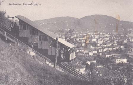 Como-Brunate funicolar - 1900s